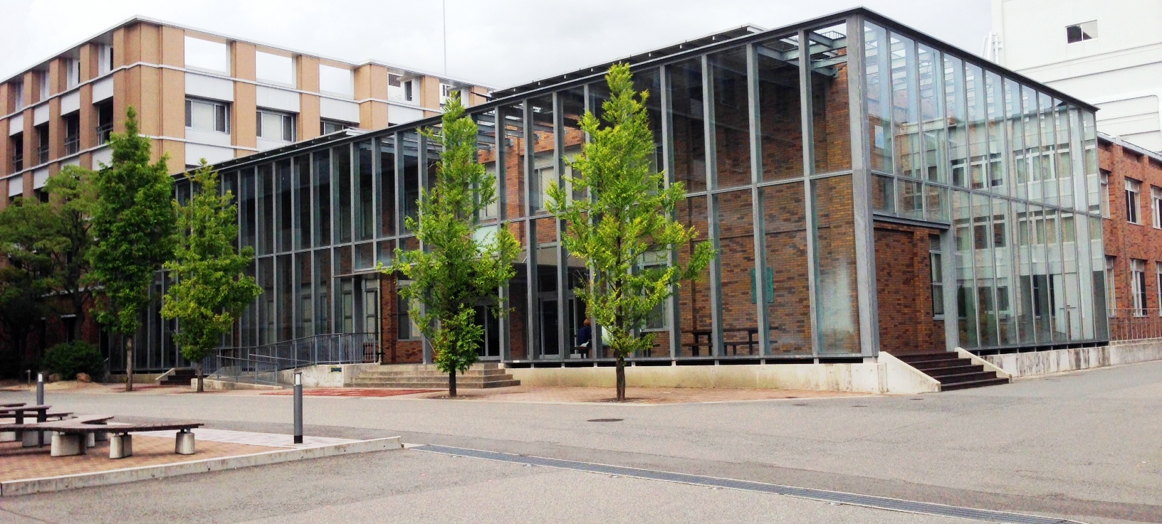 kobeuniv_engineering